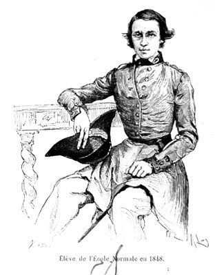 uniform (Ecole normale supérieure Paris)